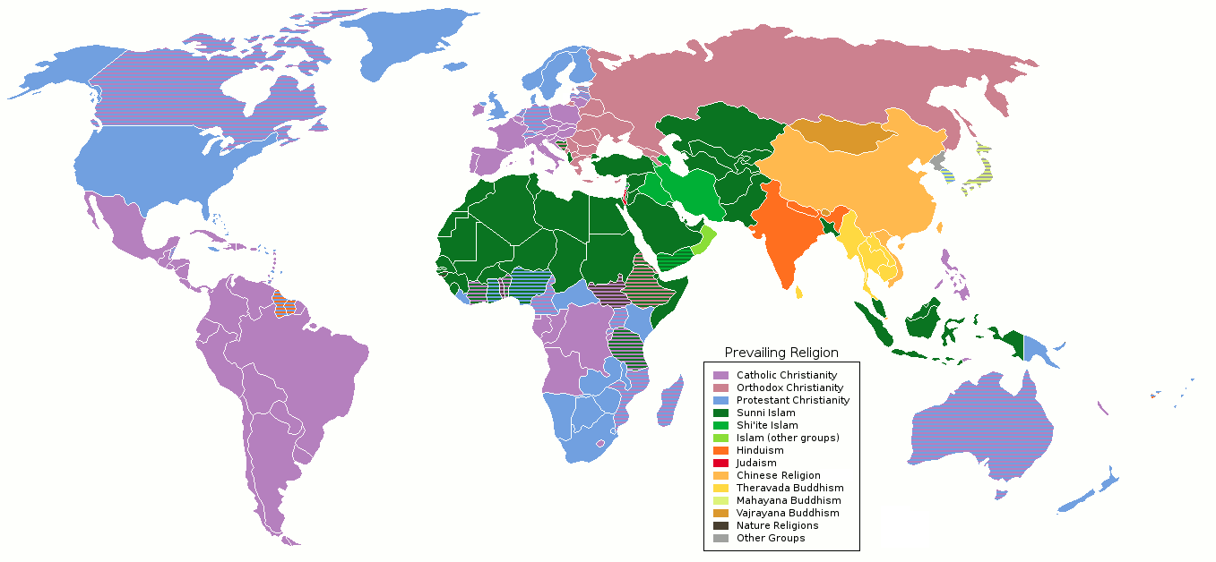 Copied from and translated into English. Original is GFDL.